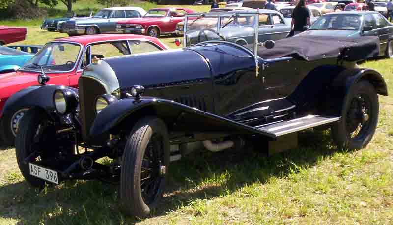 Bentley 3-Litre Tourer 1924